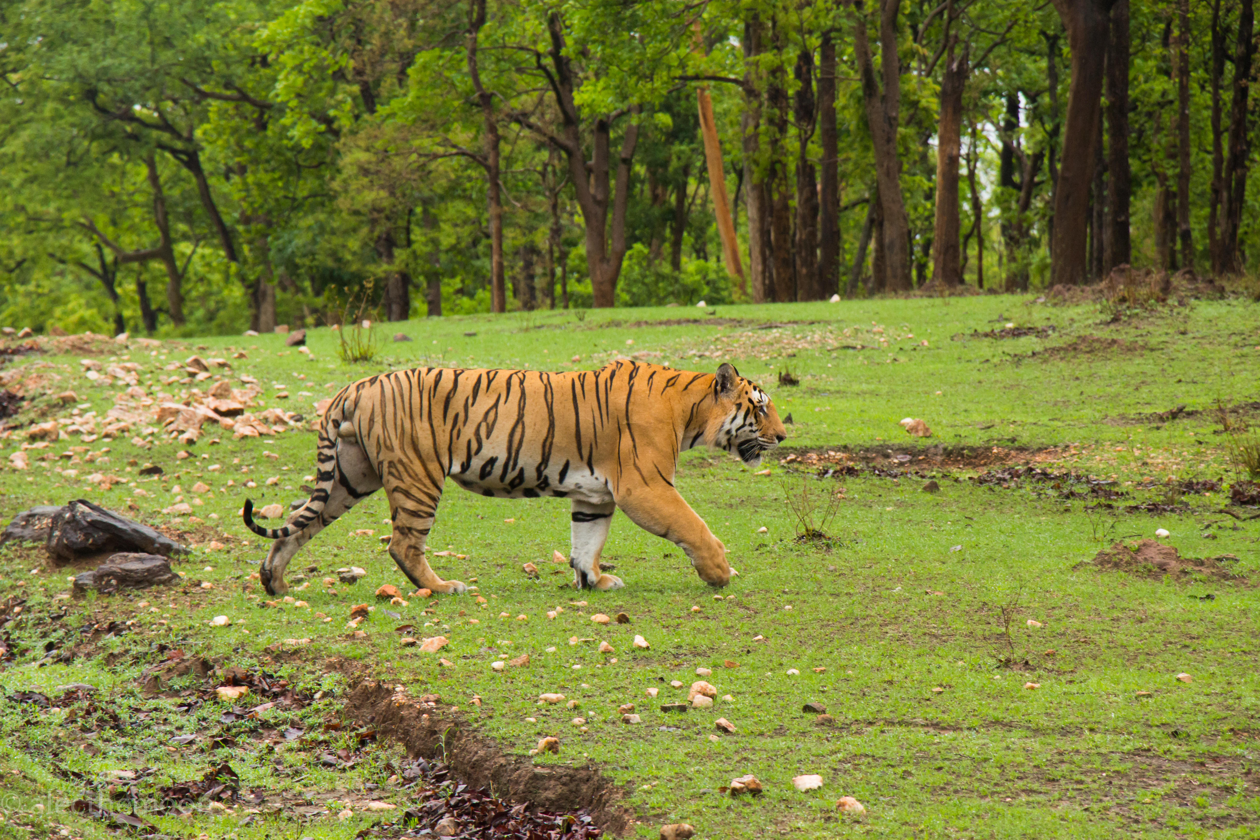 Олык марий: Tiger spotting at Pench Forest Reserve in central India near Nagpur.